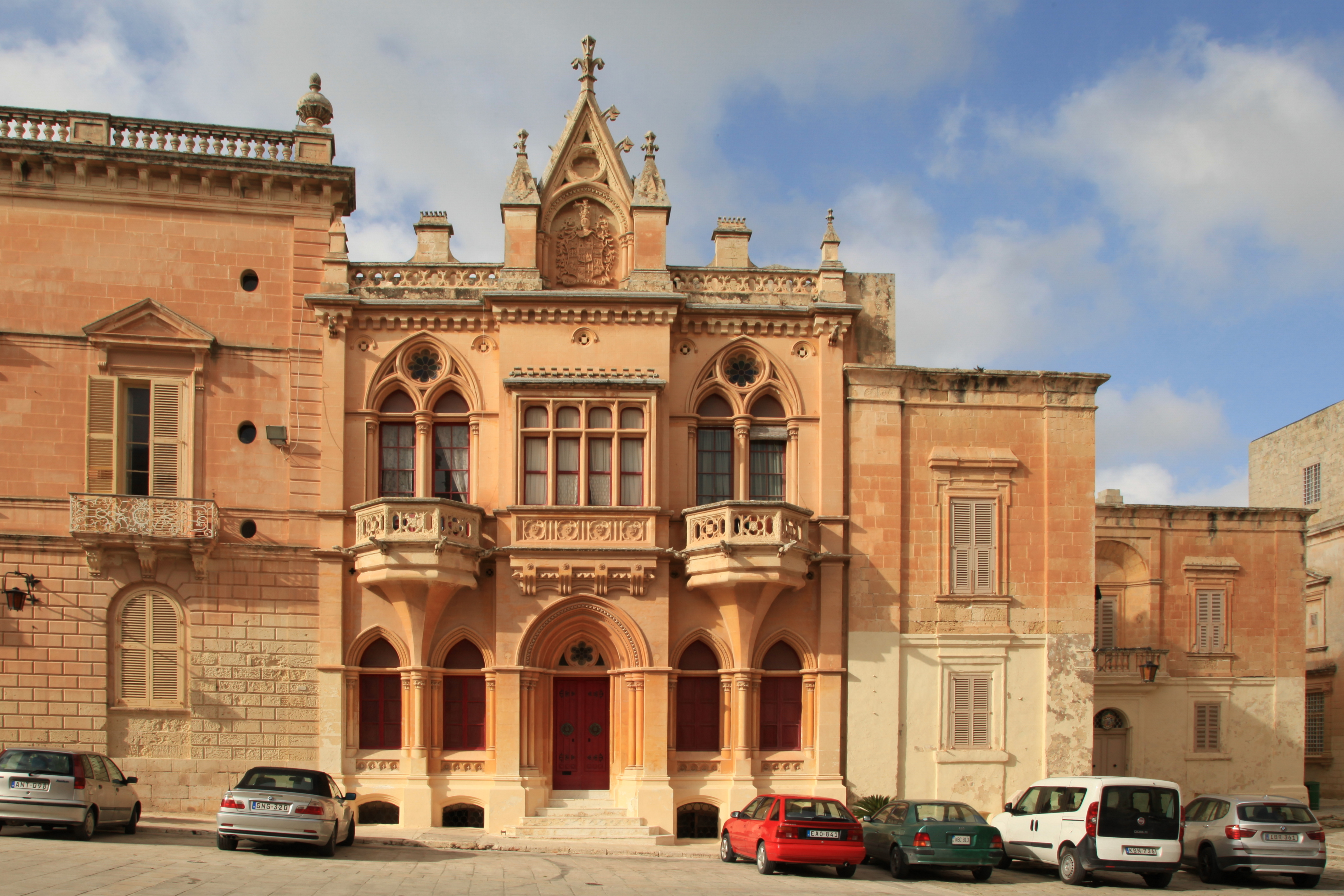 Bishop's Palace, Pjazza San Pawl in Mdina, Malta